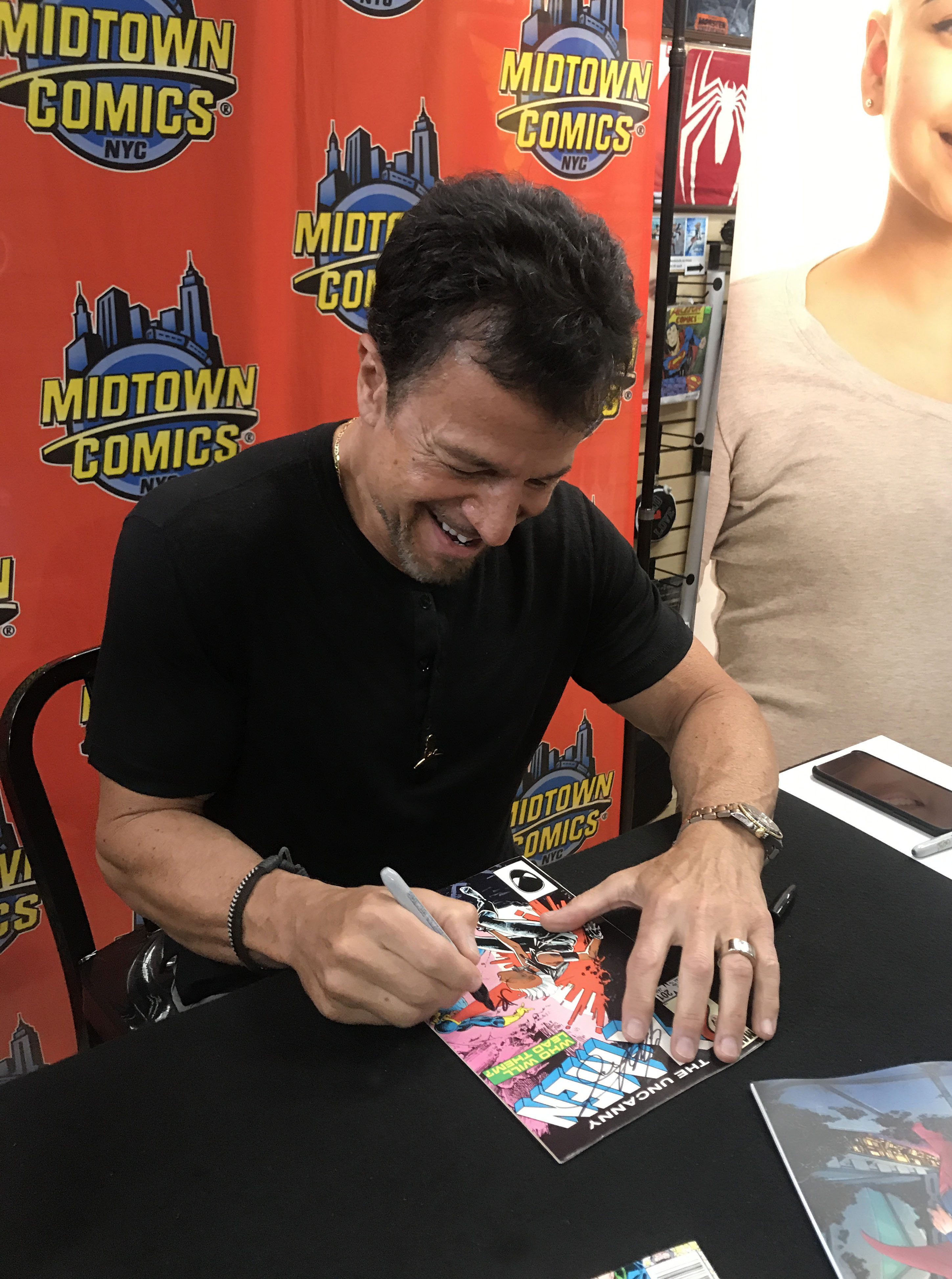 Comics artist John Romita Jr. at a June 20, 2019 book signing for Superman: Year One #1 (August 2019) at Midtown Comics Downtown in Lower Manhattan. In the photo, Romita is signing a copy of The Uncanny X-Men #201, which features the first appearance of the infant Nathan Christopher Charles Summers, who would later become the superhero Cable. The issue was not drawn by Romita, however, but by Rick Leonardi. In the background at right is a poster for St. Jude's Children's Research Hospital, to which $2.00 of each signed copy of Superman: Year One was donated, as part of the store’s arrangement with Romita. This photo was created by Luigi Novi. It is not in the public domain, and use of this file outside of the licensing terms is a copyright violation.